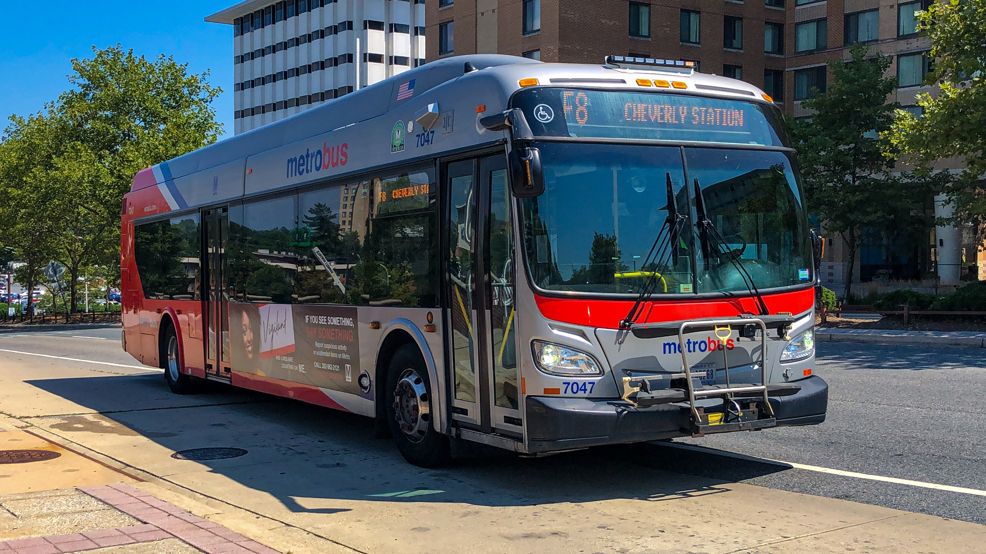 WMATA New Flyer XDE40 7047 on Route F8